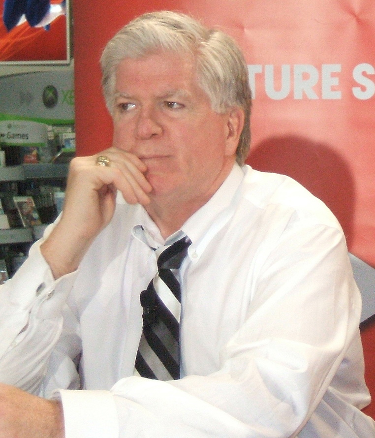 Brian Burke, the current General Manager and President of the Toronto Maple Leafs.